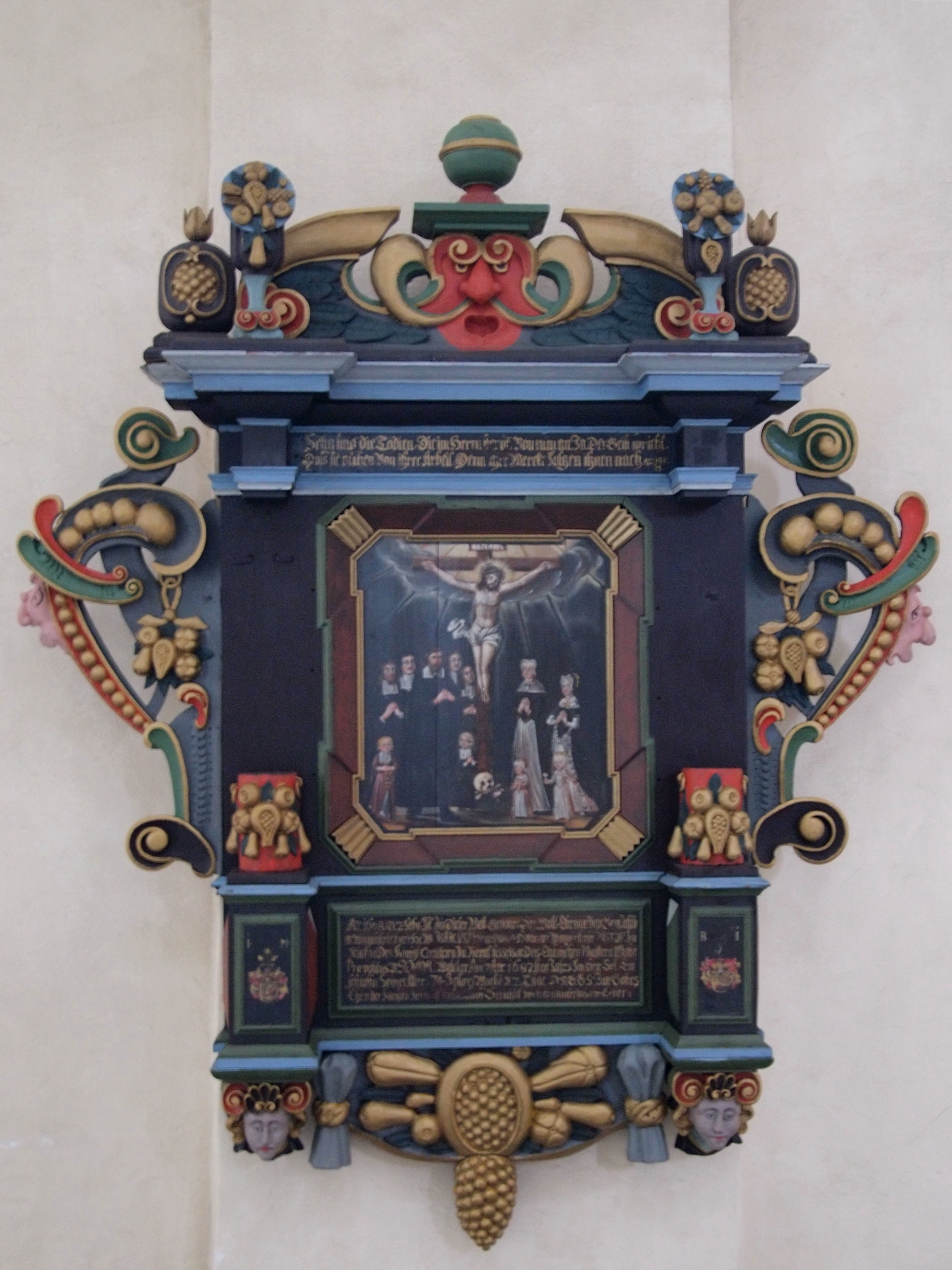 Epitaph (1683) of the family of pastor Isaac Hasselblatt from Noarootsi Church by Andreas Böttger and Kersten Frison; Estonian History Museum